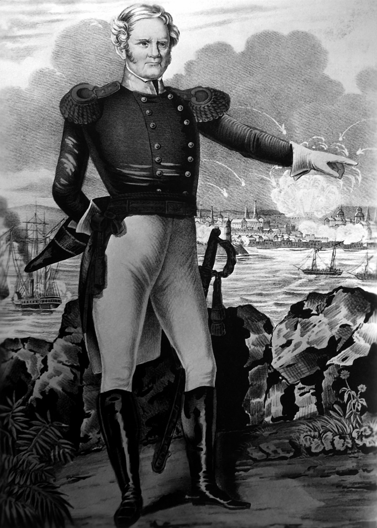 Major General Winfield Scott at Vera Cruz, March 25, 1847. Copy of lithograph by Nathaniel Currier, 1847. NARA FILE #: 111-SC-496992 WAR & CONFLICT BOOK #: 102.